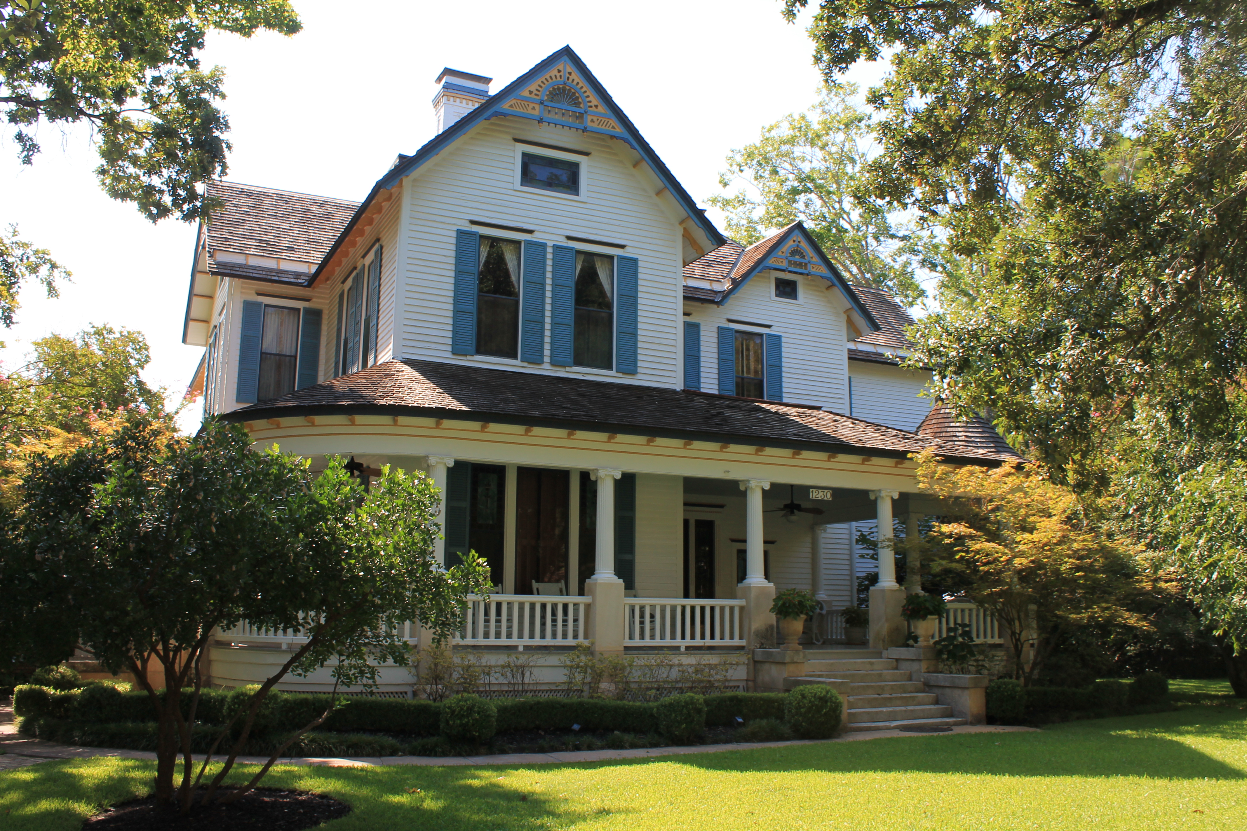 Belford House at 1230 S. Austin Ave. in the Belford Historic District of Georgetown, Texas